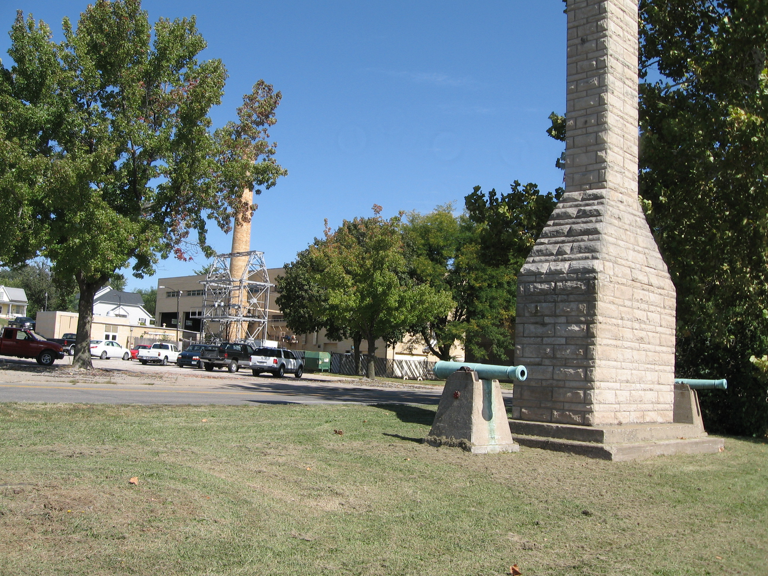 Monument for the orginal Fort Madison, Fort Madison, Iowa.